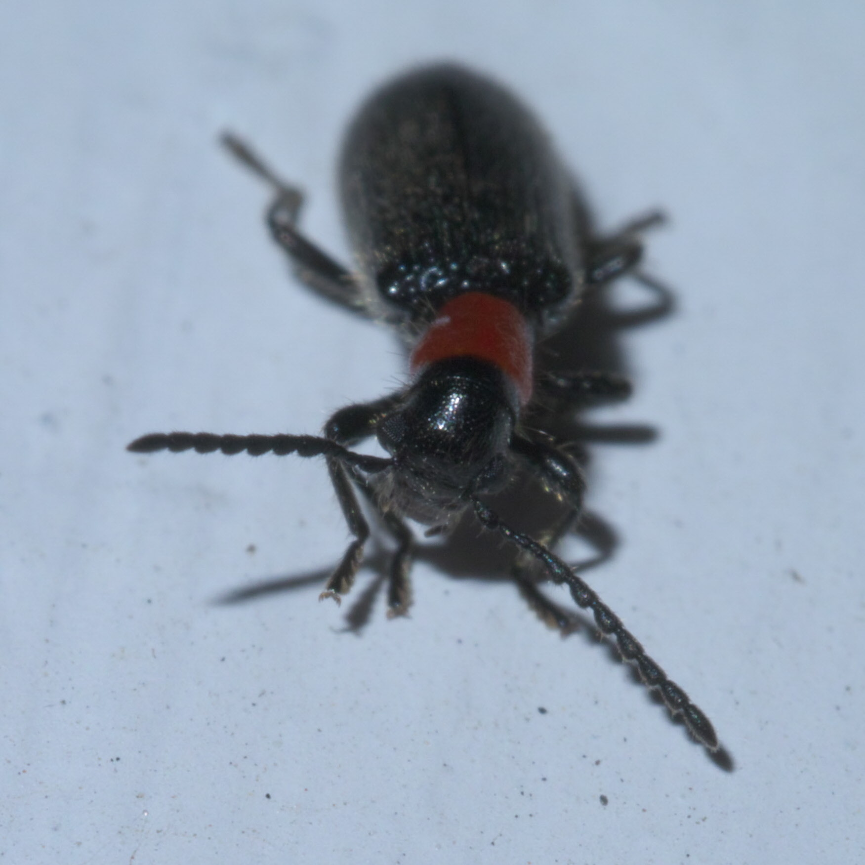 Cymatoderella collaris, Family: Checkered Beetles, ID Confidence: 92